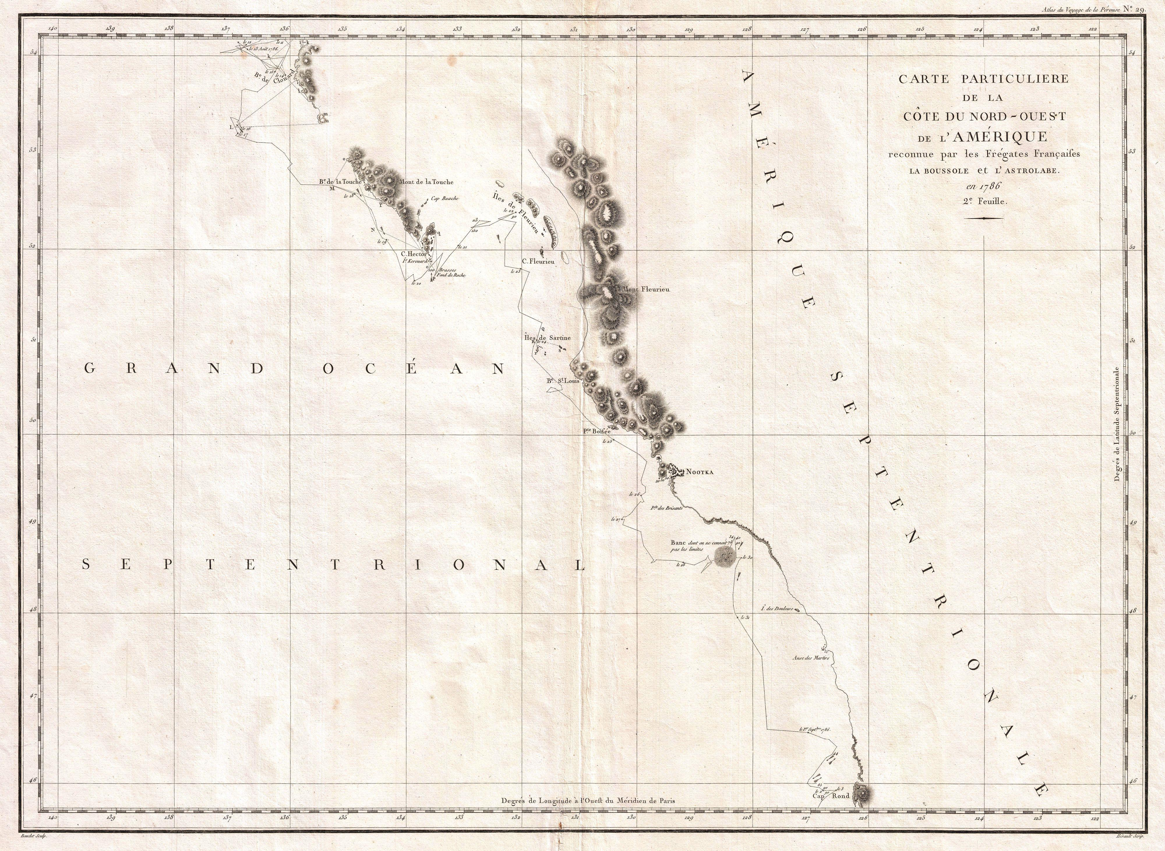 This is a fine example of La Perouse’s important 1787 mapping of Vancouver Island and the coastlines of Washington and British Columbia. When drawn in 1787 La Perouse’s map was the only available map of this region not based on the survey work of Captain Cook. The map covers the coastline from Cape Rond (Tillamook Head, Oregon) northwards past Vancouver Island as far the northwestern top of the Baie de Clonard (The Queen Charlotte Islands or Haida Gwaii). The cartography here may be a little hard to understand for most casual observers due Perouse’s use of archaic French language place names and well as a number of major errors. Perouse, like Cook, entirely missed the entrance to the Strait of Juan de Fuca, consequently Vancouver Island is erroneously attached to the mainland. Nonetheless, many of the sites visited by early explorers, including the Nootka Sound, the Bay of St. Louis (Quatsino Sound), Pointe Boisee (Cape Cook), Mont Fleurieu (Silverthrone Mountain), Cape Fleurieu (Goose Island), Cap Hector (Cape St. James), and many others are noted. Cartographically Perouse’s mapping of this region, though still quite incomplete, is a major advancement over the work of Cook who after leaving Nootka Sound was forced offshore by stormed and skipped much of the coast until he reached Alaska near Sitka. This is thus the first chart to map the British Columbia coastline between 49°34' and 57°. In its day the importance of this chart went largely unknown for, though the survey work and original engraving date to 1786, the atlas of La Perouse’s discoveries was not officially published until 1798, by which time other more advances mappings of the region had reached the mainstream. Nonetheless, this map is a vital addition to any serious collection focusing on the cartographic development of America’s northwest coast.